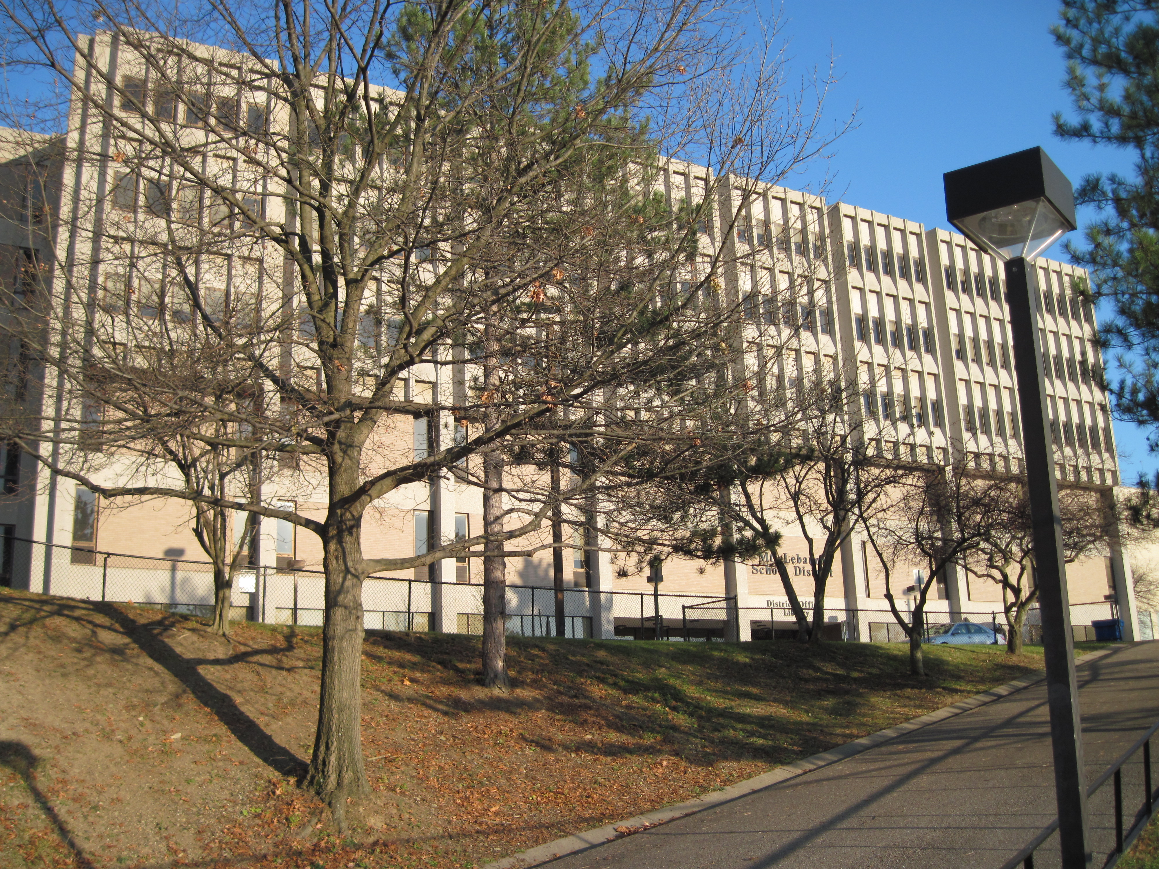 Mt. Lebanon High School Building C